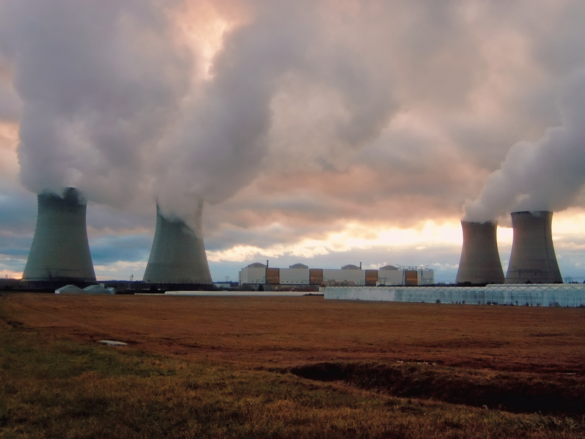 The nuclear power plant of Dampierre-en-Burly, France